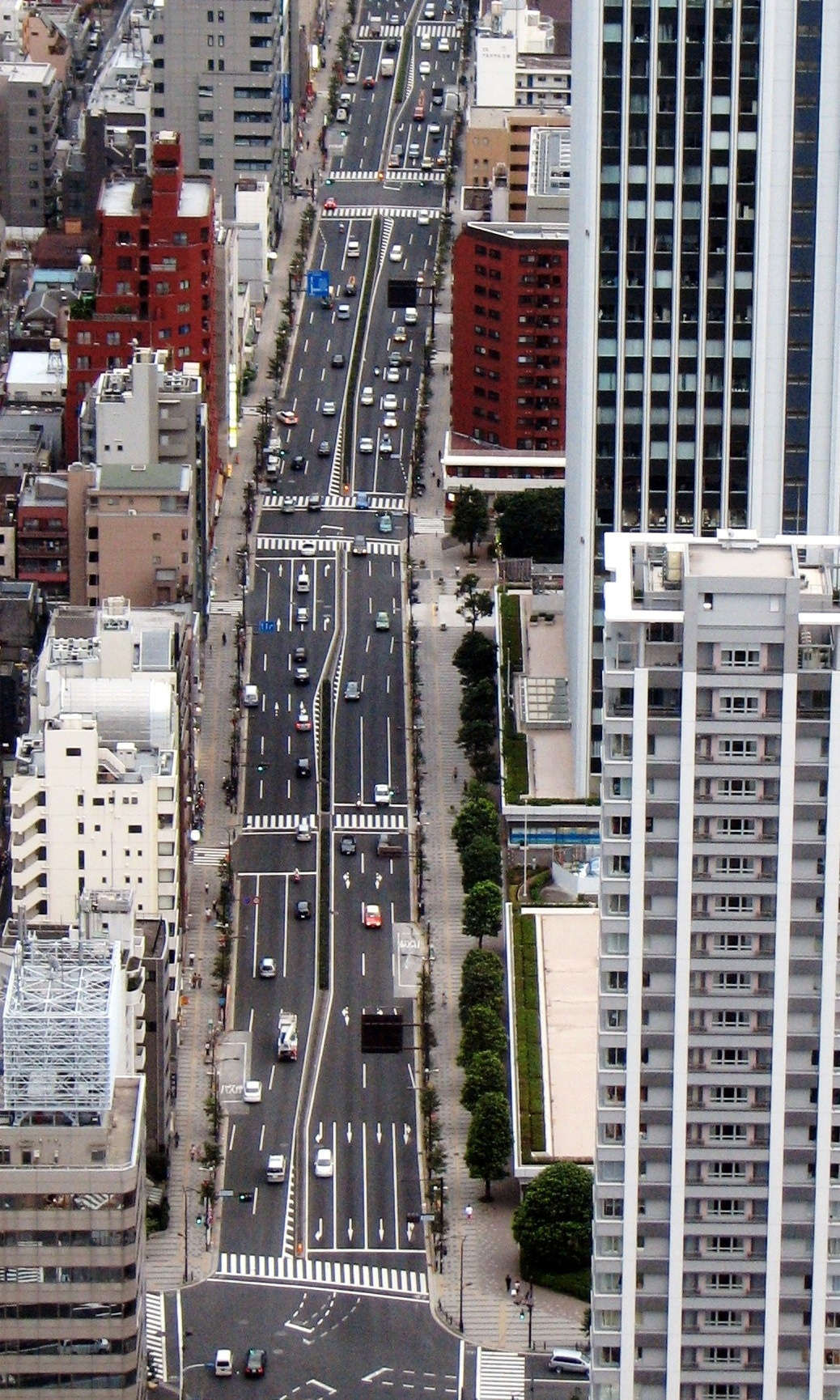 The Sakurada-dori avenue, viewed from Tokyo Tower.